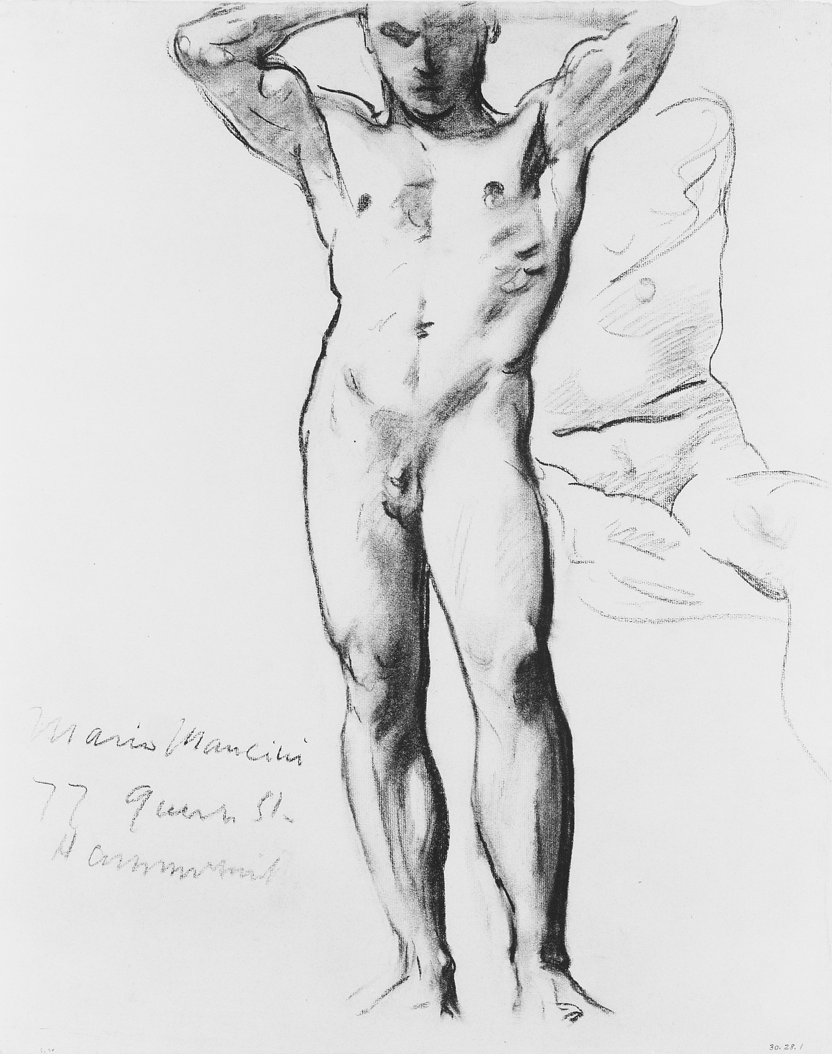 Man Standing, Hands on Head Artist: John Singer Sargent (American, Florence 1856–1925 London) Date: ca. 1890–1910 Medium: Charcoal on light blue laid paper Dimensions: 24 1/4 x 18 7/8 in. (61.6 x 47.9 cm) Classification: Drawings Credit Line: Gift of Miss Emily Sargent, 1930